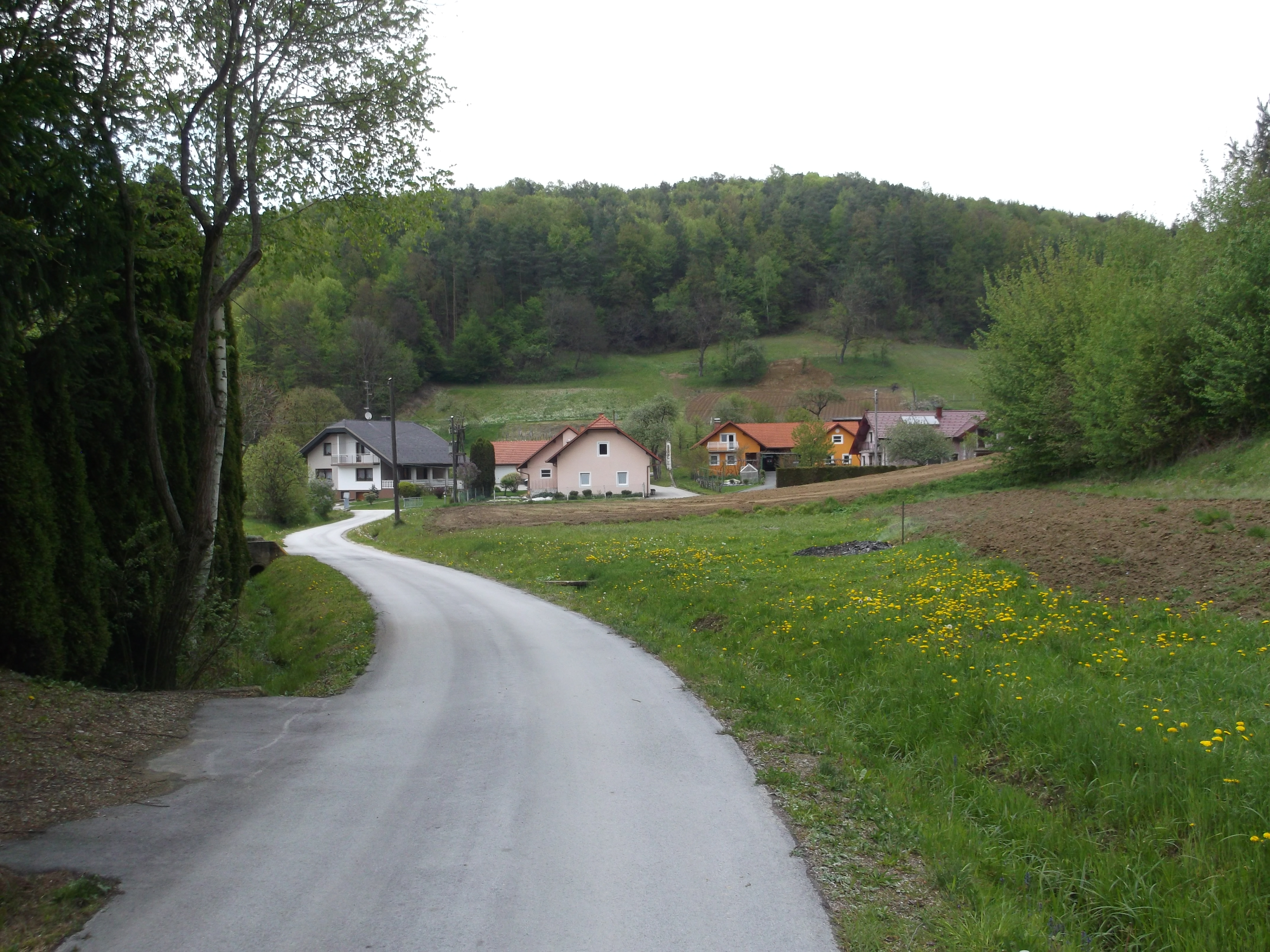 Dolič, Kuzma municipality, Prekmurje (Slovenia)